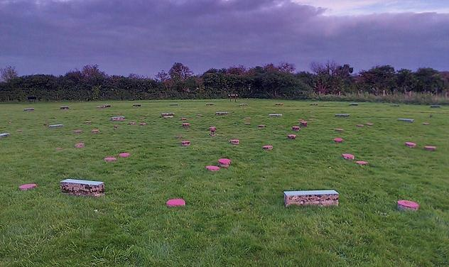 The Sanctuary, as it faces the hedge that bounds one section of the monument. Near to Avebury, Wiltshire.